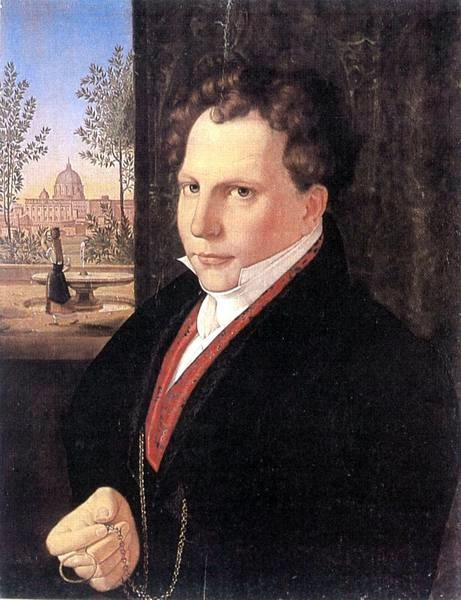 Gustav Adolf Wilhelm Graf von Ingenheim (1789-1855), Sohn von König Friedrich Wilhelm II. von Preußen